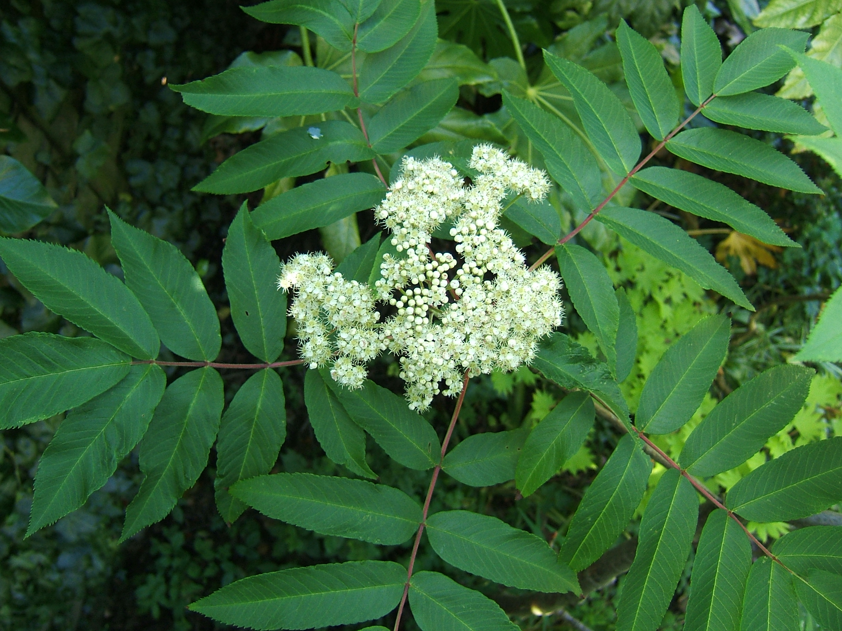 Sorbus sargentiana (Sargent's Rowan) foliage and flowers, cultivated, Newcastle, Northumberland, UK